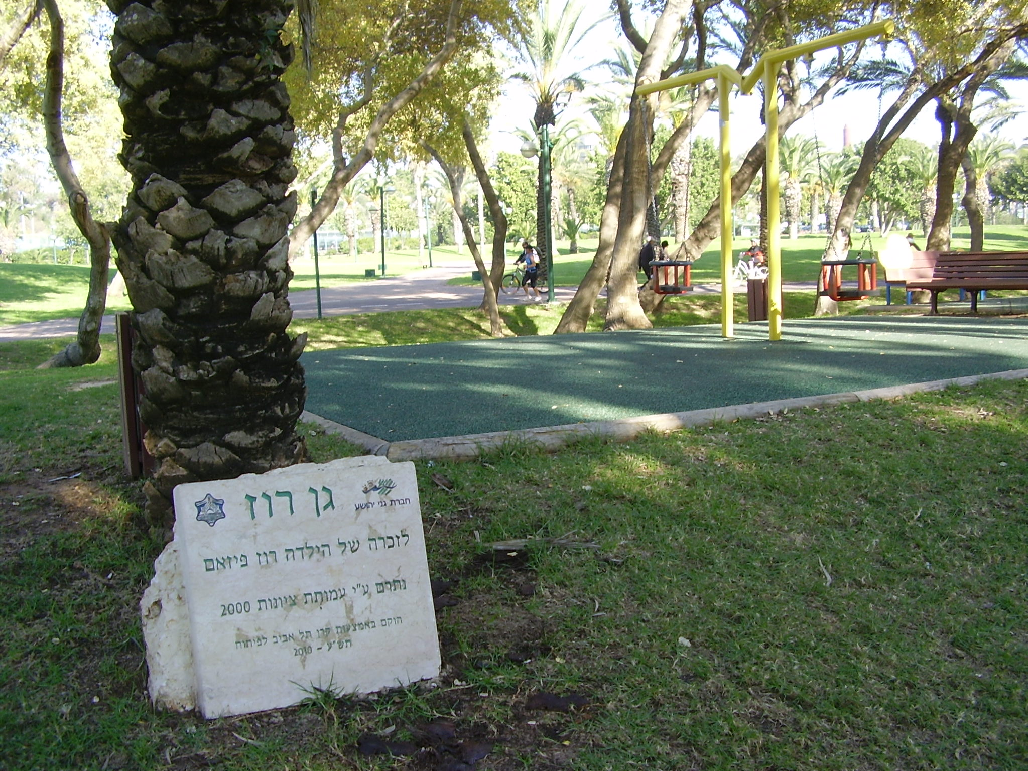 rose pizem garden in the yarkon park in tel aviv.rose-5 years old girl, was murdered by her grandfather in 2008